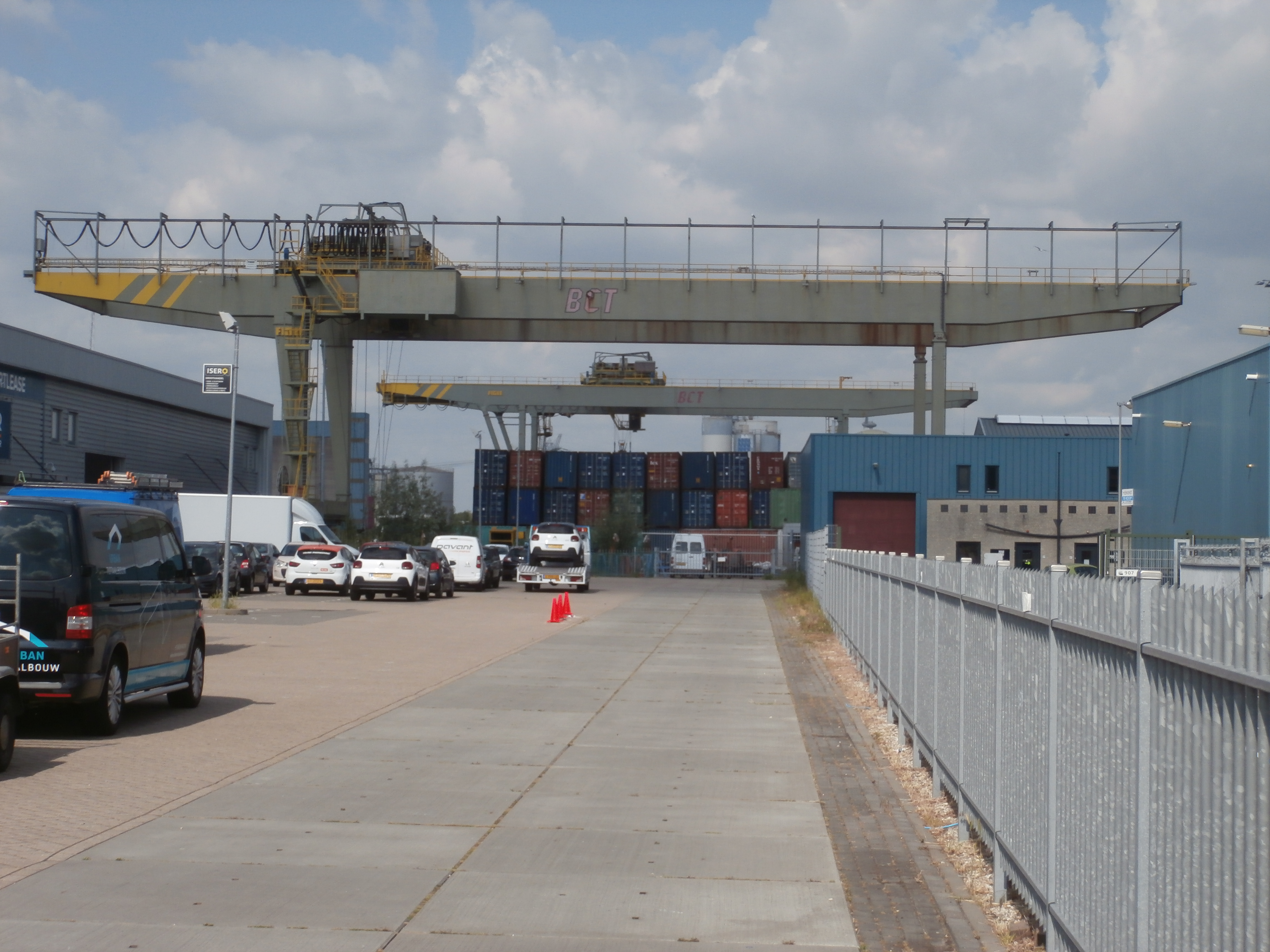 The Bosche Container Terminal (BCT) is the container terminal in the harbor of 's-Hertogenbosch. It was founded in 1995.